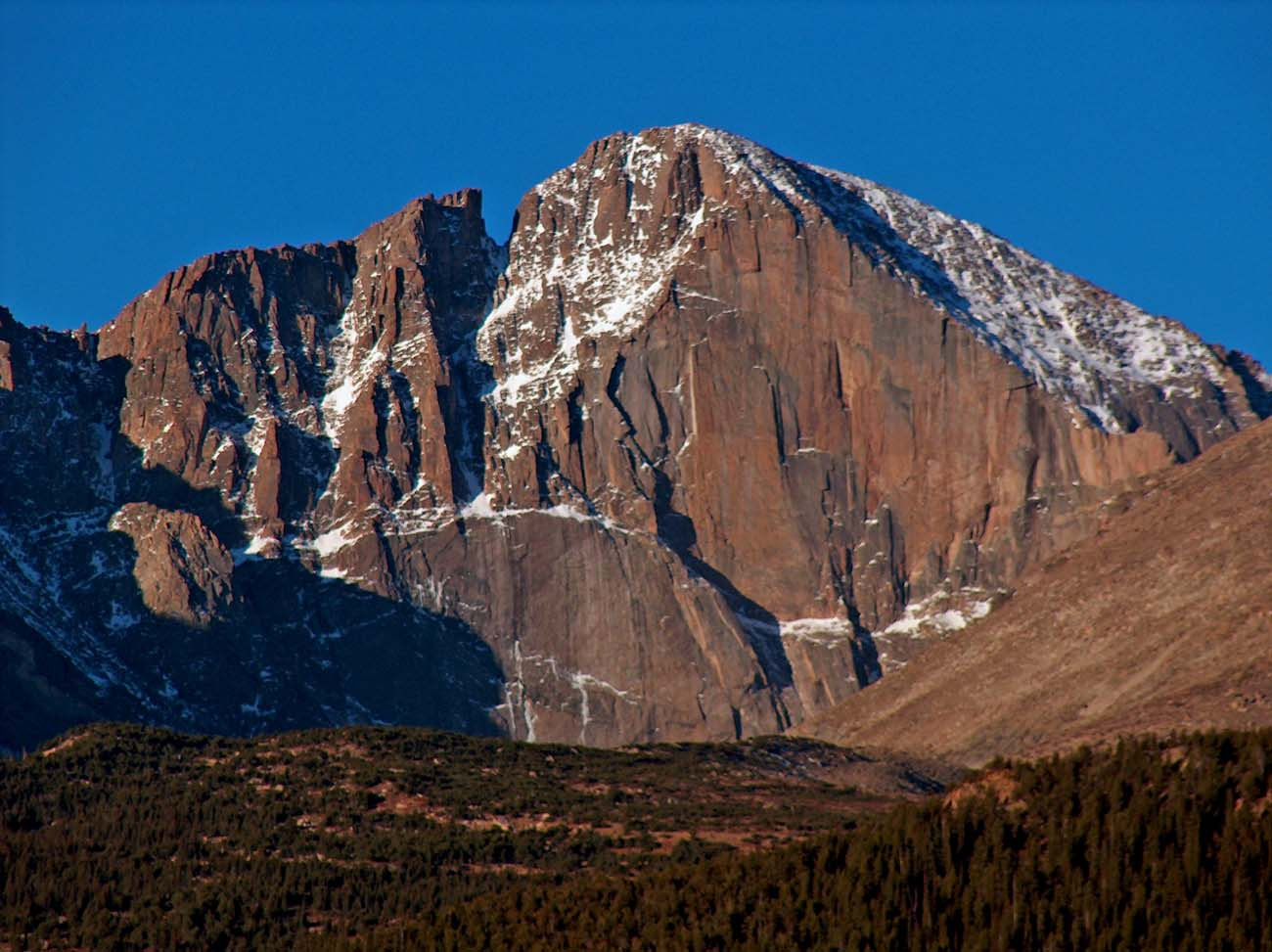 East face of Longs Peak, including The Diamond, showing multiple climbing routes.